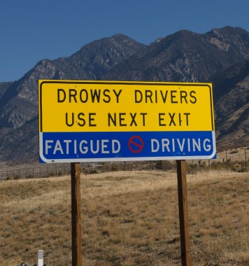 An advisory sign on Interstate 15 in Utah near Mt. Nebo. It reminds drowsy drivers to get off the freeway.